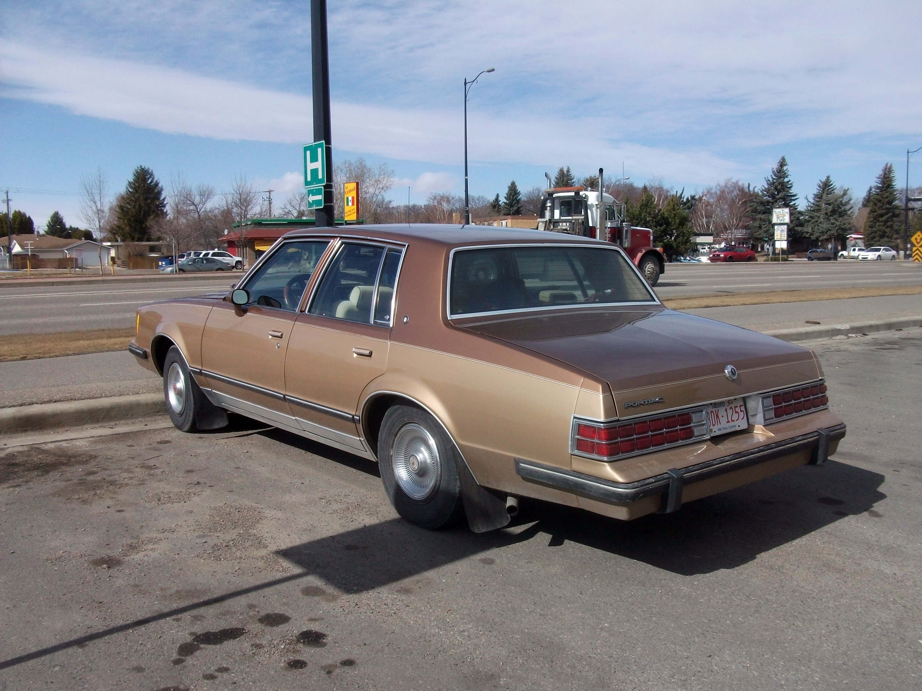 1986 Pontiac Bonneville with a neat two tone brown paint job.